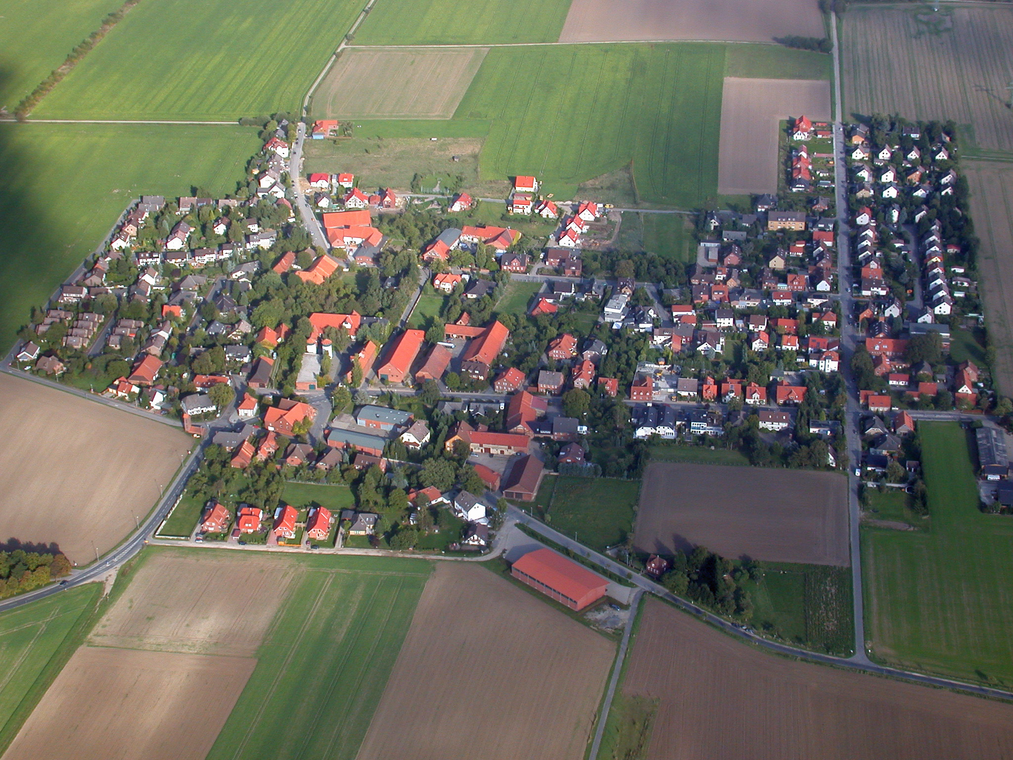 Aerial view of Wülferode